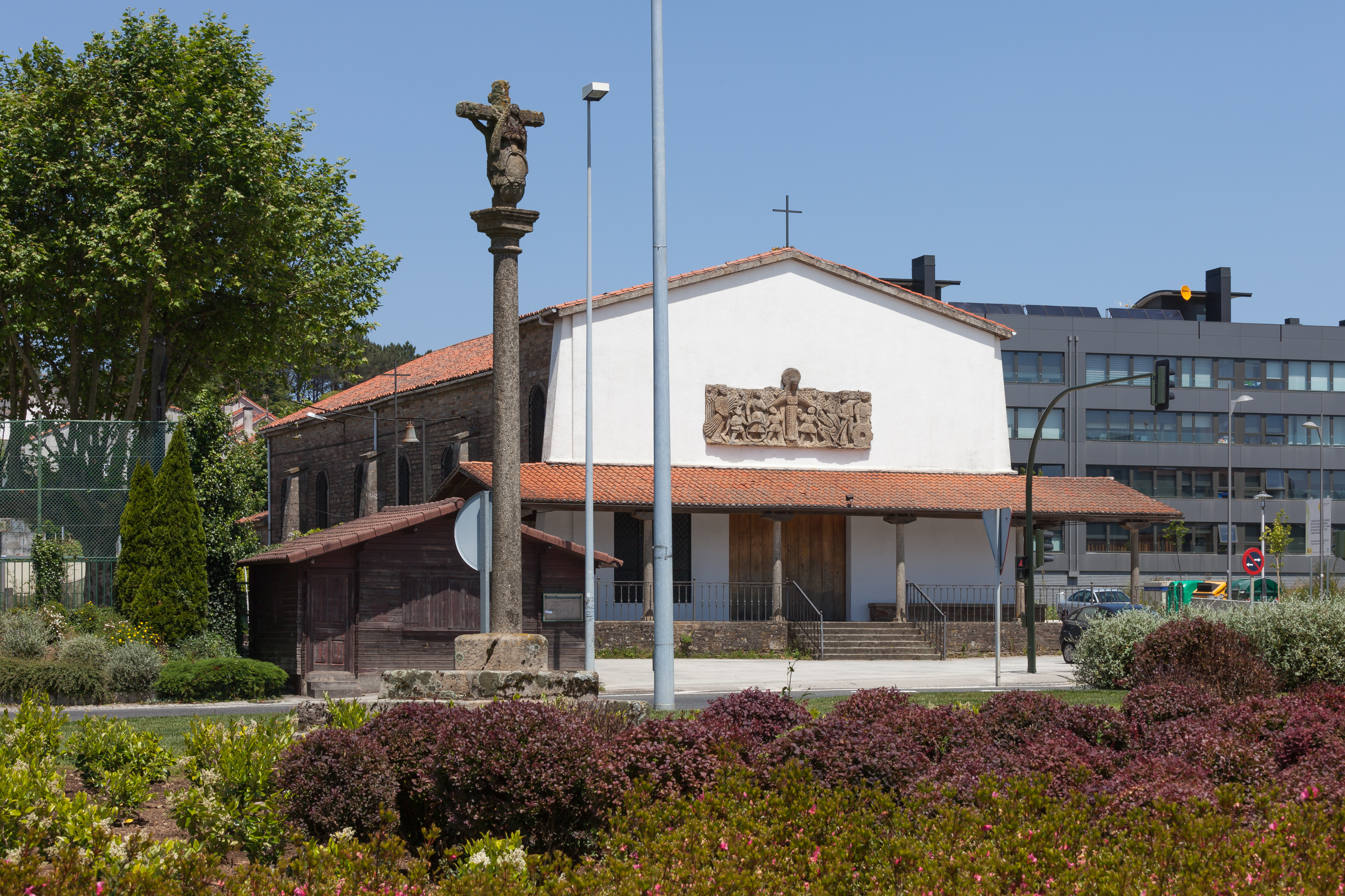 Church of Castiñeiriño, Santiago de Compostela, Galicia (Spain)